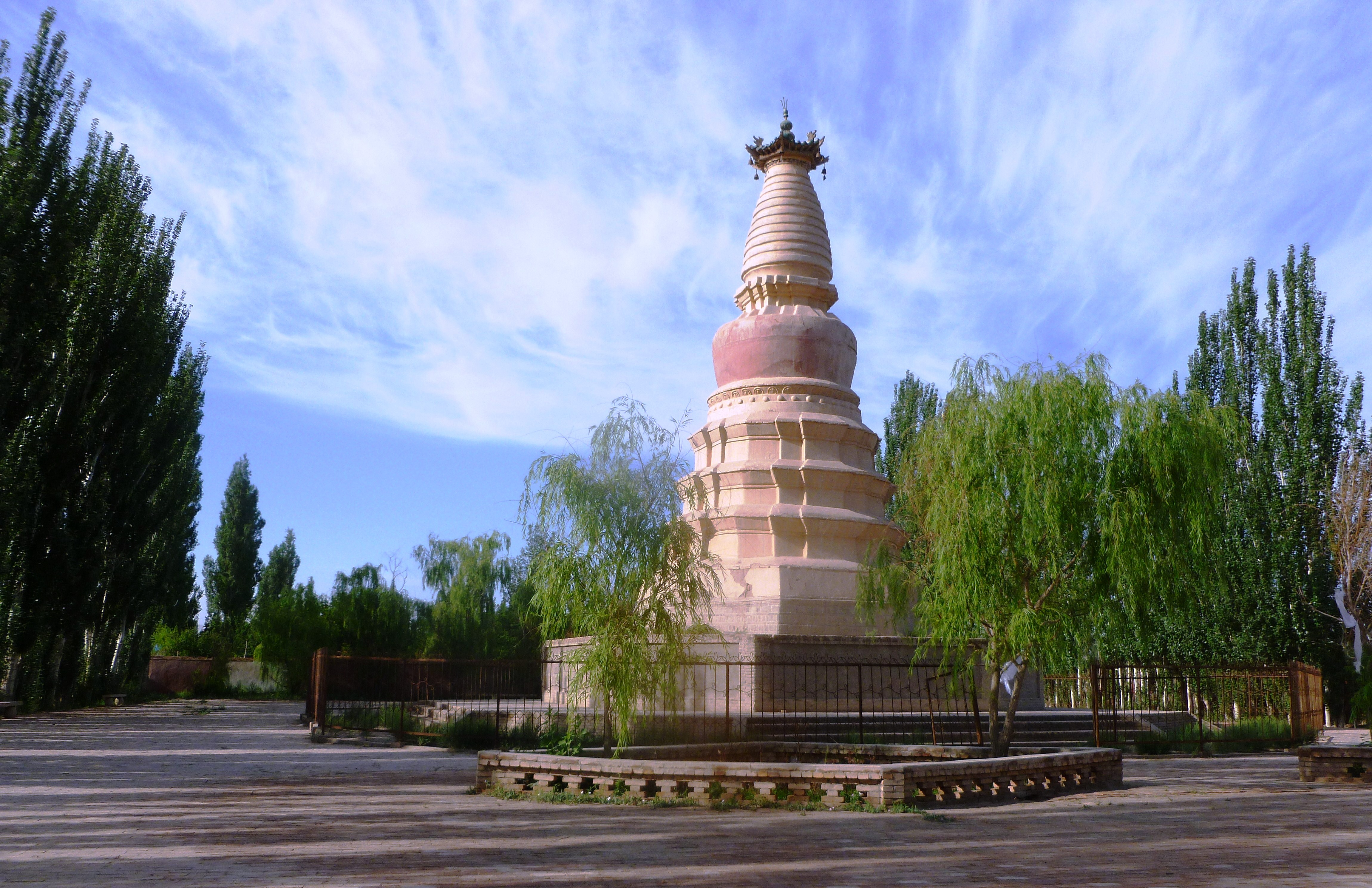 White Horse Pagoda stupa, in Dunhuang, Gansu province, China. Picture author note : I tried to show the setting of the pagoda in this photo